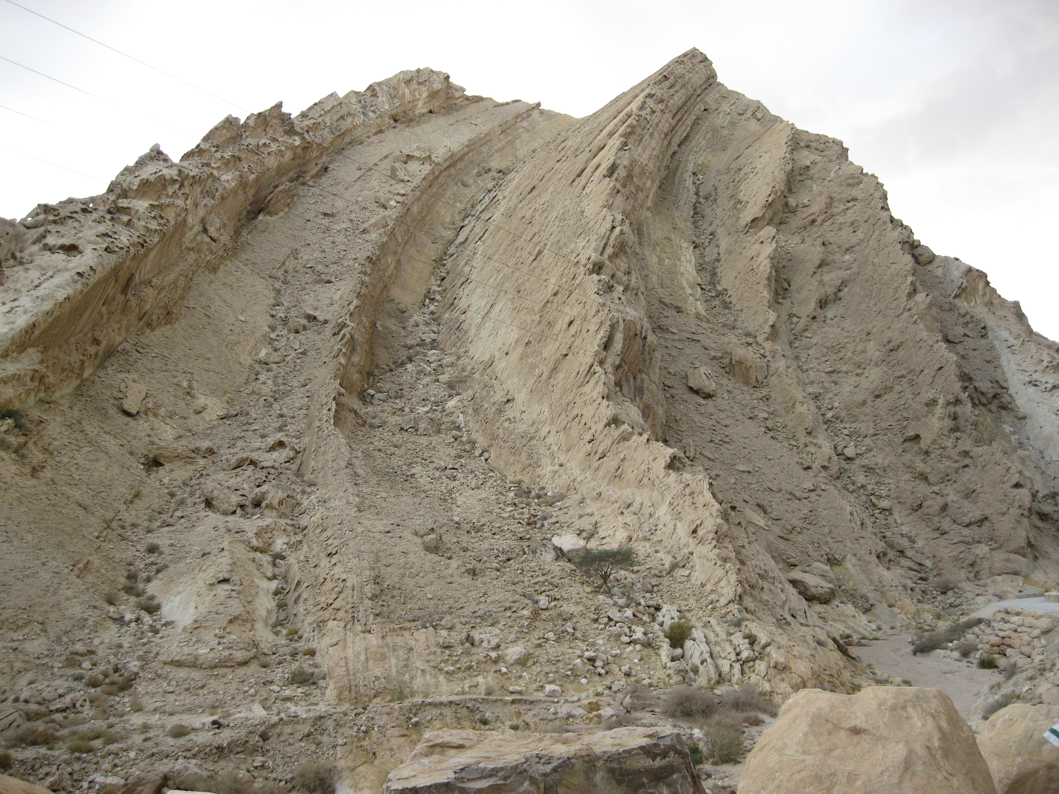 layers of rock at the boundaries of HaMakhtesh HaKatan at the Negev